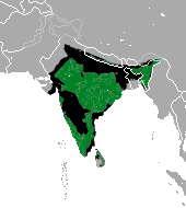 Sloth Bear (Melursus ursinus) range (green - extant, black - former) with the inclusion of colonial borders